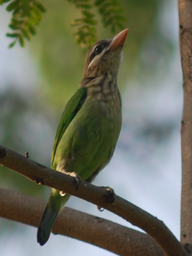 White-cheeked Barbet (Megalaima viridis) (also known as the Small Green Barbet) at the Indian Institute of Science (IISc.), Bangalore, India.